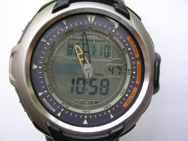 Casio Protrek PRG 60 AVER Triple Sensor Watch